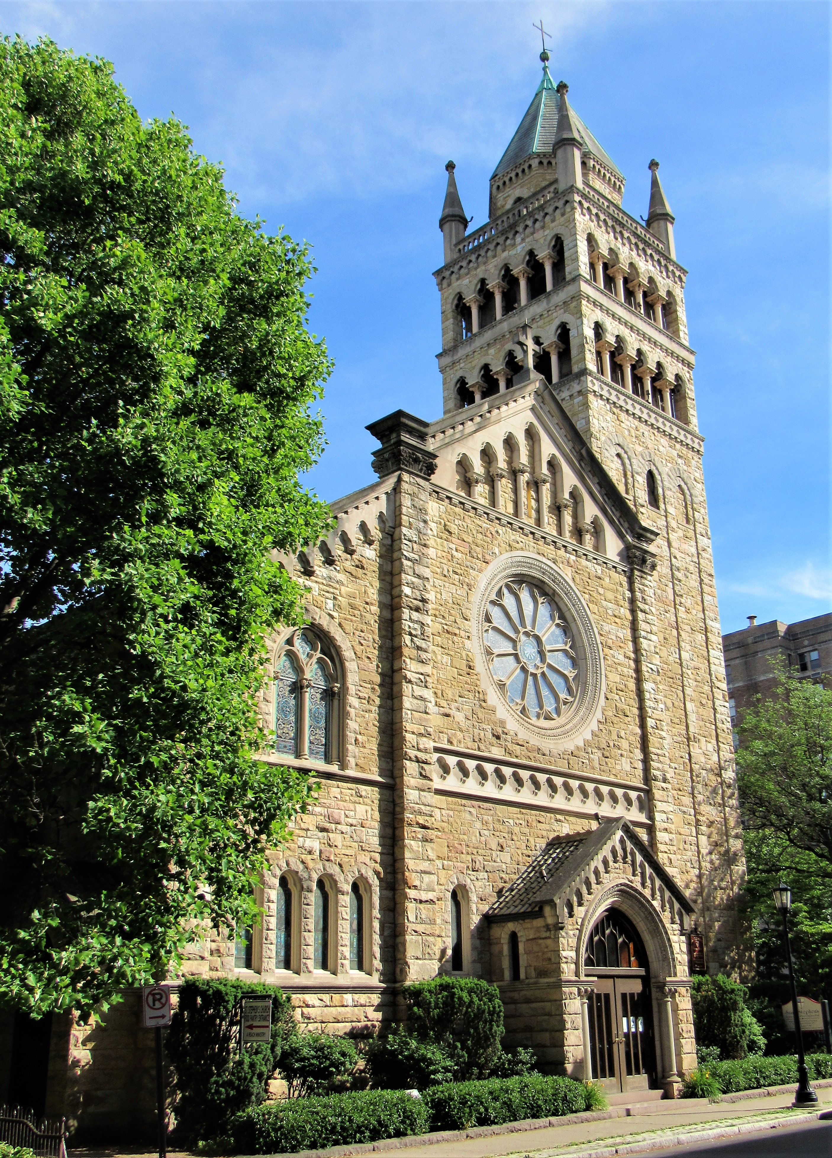 St. Stephen's Episcopal Pro-Cathedral in downtown Wilkes-Barre, Pennsylvania.